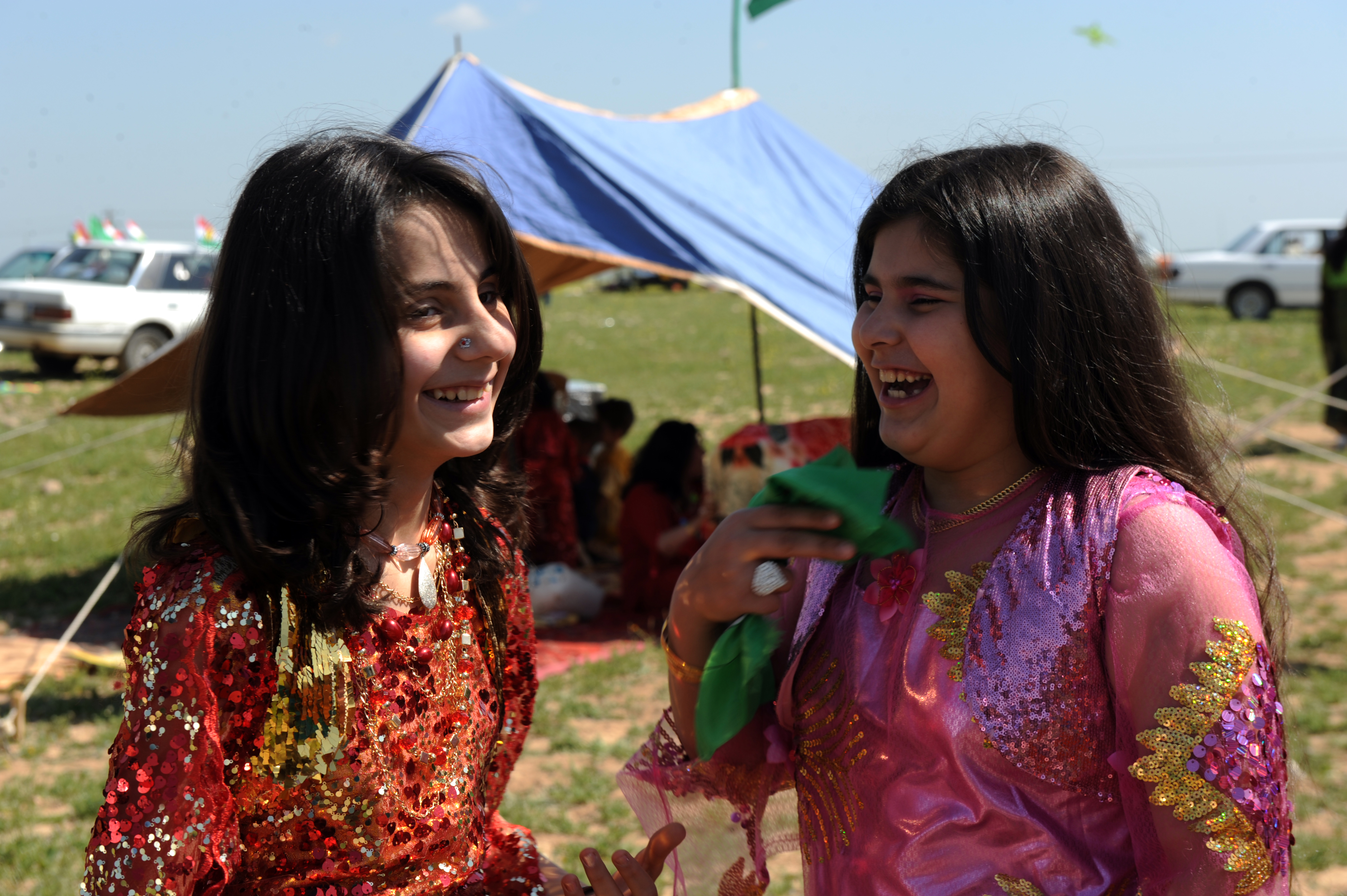 A pair of girls giggle with one another during a Kurdish New Year celebration in the Qarah Anir region of Kirkuk, Iraq, March 21. U.S. Soldiers from 2nd Platoon, Bravo Battery, 2nd Battalion, 3rd Field Artillery Regiment, 1st Brigade Combat Team, 1st Armor Division, visited the celebrating Kurdish citizens and gain feedback about how the citizens feel their recent elections were run.